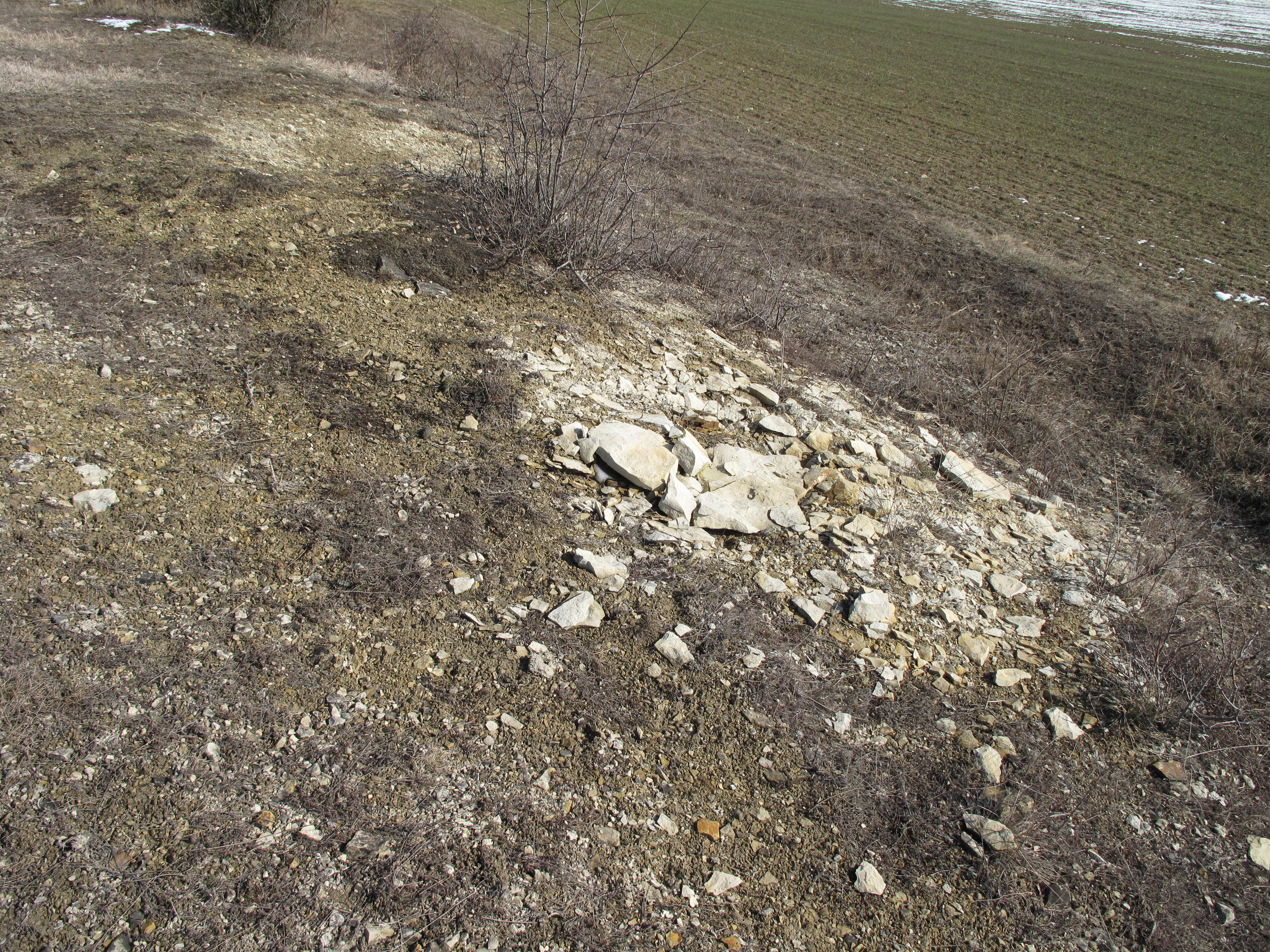 Rock in natural monument "Bohouškova skalka", Kolubky Municipality, Kolín District, Czech Republic.